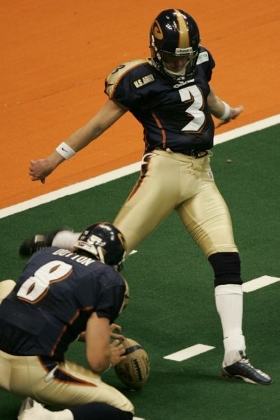 Clay Rush Colorado Crush Pepsi Center